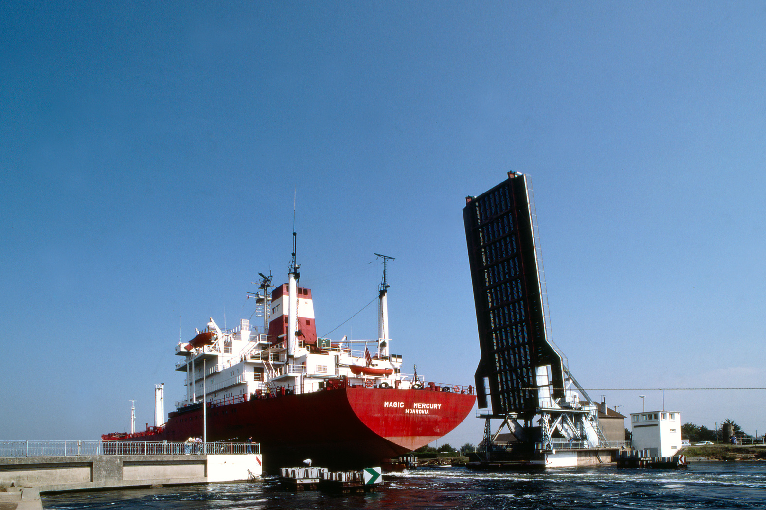 Original Pegasus Bridge in open position, leaving freight ship Magic Mercury to the English Channel; Bénouville, Normandie, France.